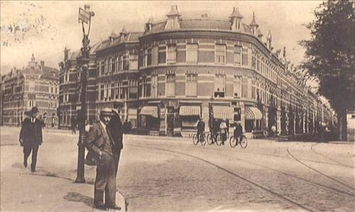 Vaillantlaan in The Hague, Netherlands, 1925